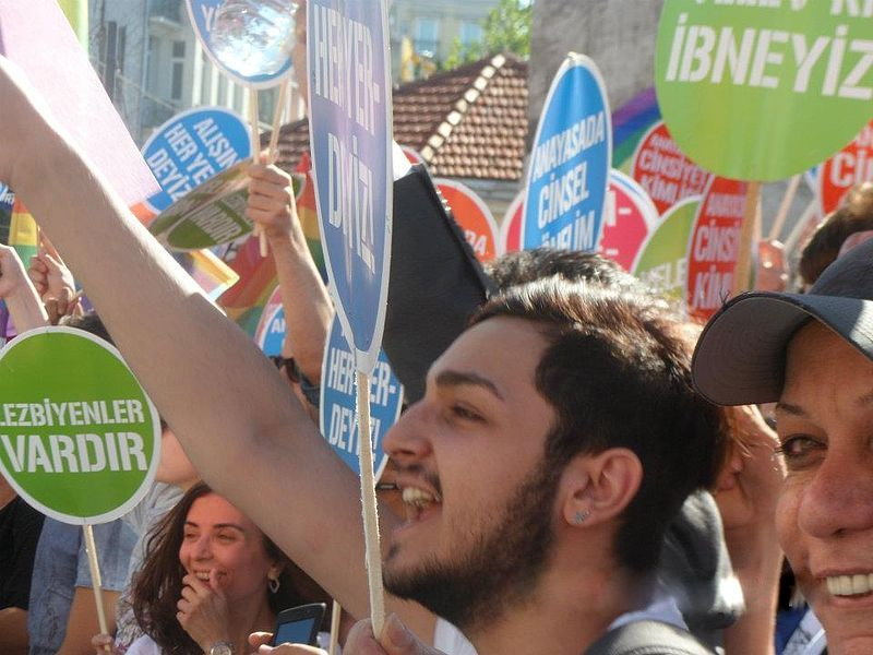 2012 LGBT Pride Parade, Istanbul, Taksim.